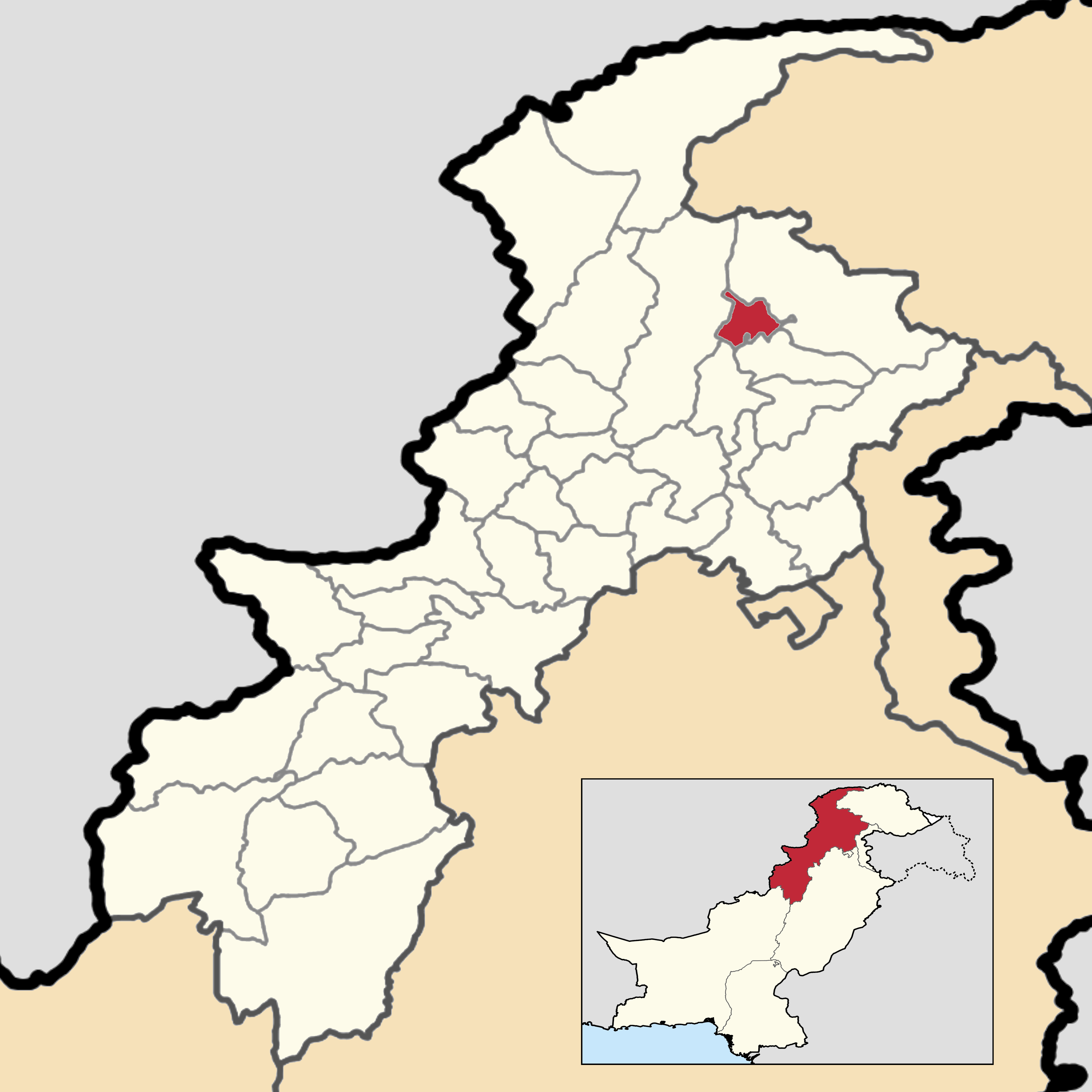 This is a map showing the location of Lower Kohistan District within Khyber Pakhtunkhwa Province. You can find information about the sources used on this map, showing every district in Khyber Pakhtunkhwa Province. This map and its borders are up to date as of June 16, 2020.